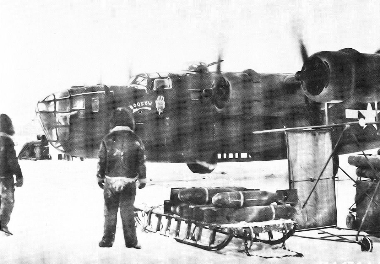 21st Bombardment Squadron B-24 Liberator Amchitka Alaska Mar 1943. Sleds were used to transport bombs to the aircraft in the snow.